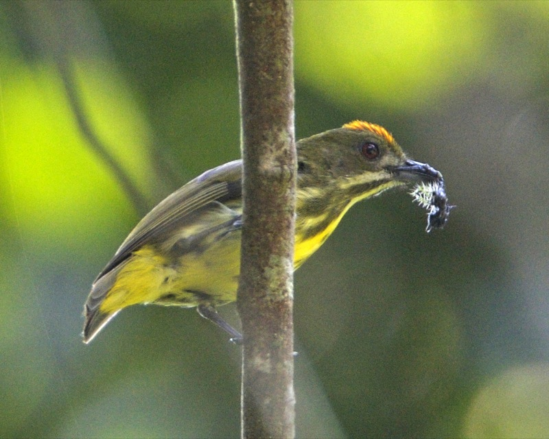 Yellow-breasted Flowerpecker Prionochilus maculatus ssp Prionochilus maculatus oblitus 14th. June, 2009 Location: Panti Forest, Johor, Malysia Too much in the shadow for a good picture but it shows the orange crown patch, a distinguishing feature 690V8296